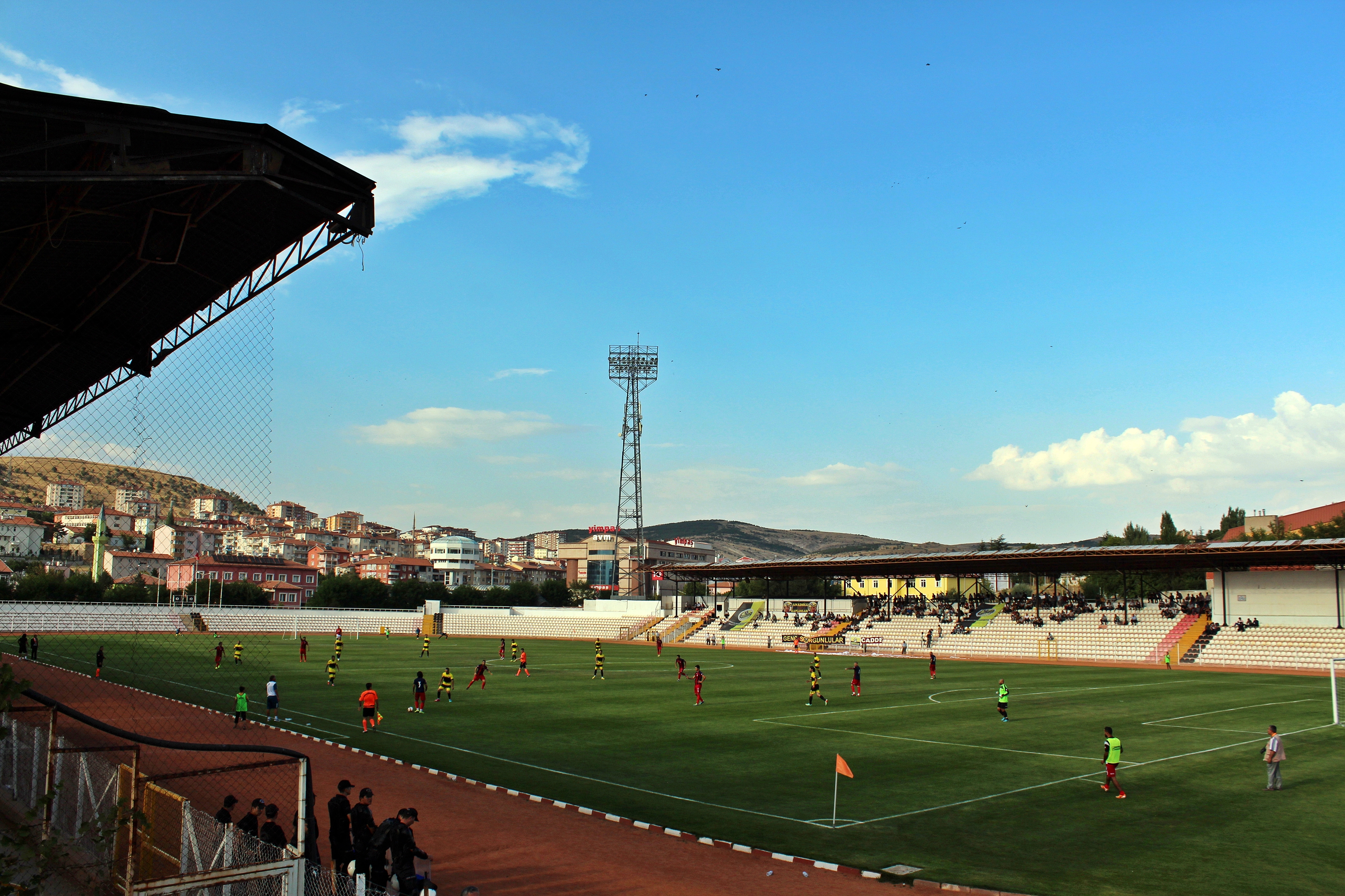 Yozgatspor stadiumTürkçe: Yozgatspor'un stadyumu.